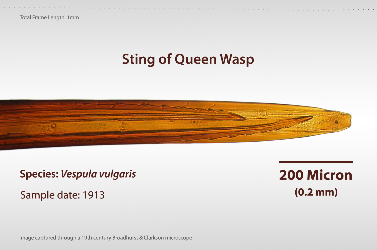 This is the stinger of a queen wasp, Vespula vulgaris. It is contained in a vintage microscope slide set and dates to 1913. You can see the inner workings of a wasp's sting quite clearly at this resolution: two tiny barbs are contained in the tip. The first barb is thrust into the unfortunate receiver in order to stabilise the insect so it can deliver a second spike which injects the actual venom.The shot was captured through a 19th century Broadhurst & Clarkson microscope, with my camera set up on a tripod looking directly down into the viewfinder. The photograph can be found in full resolution at this address.